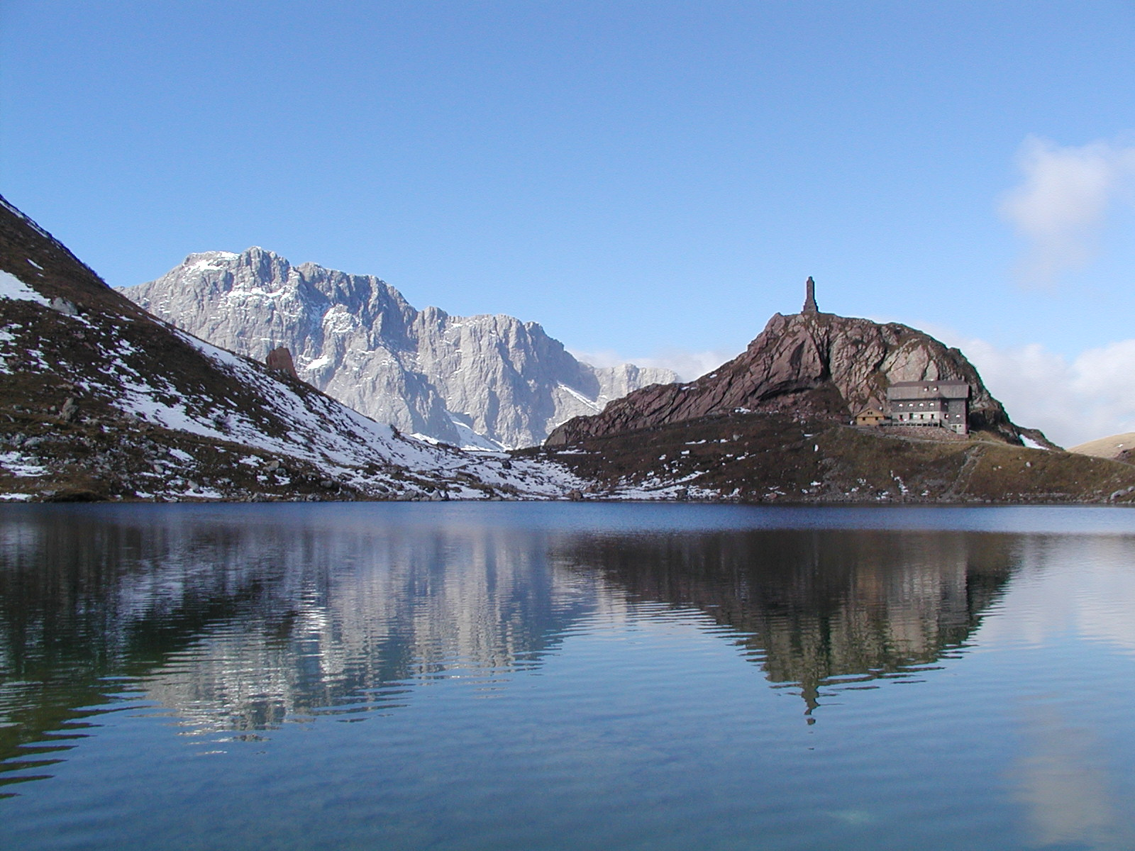 Lake Wolay